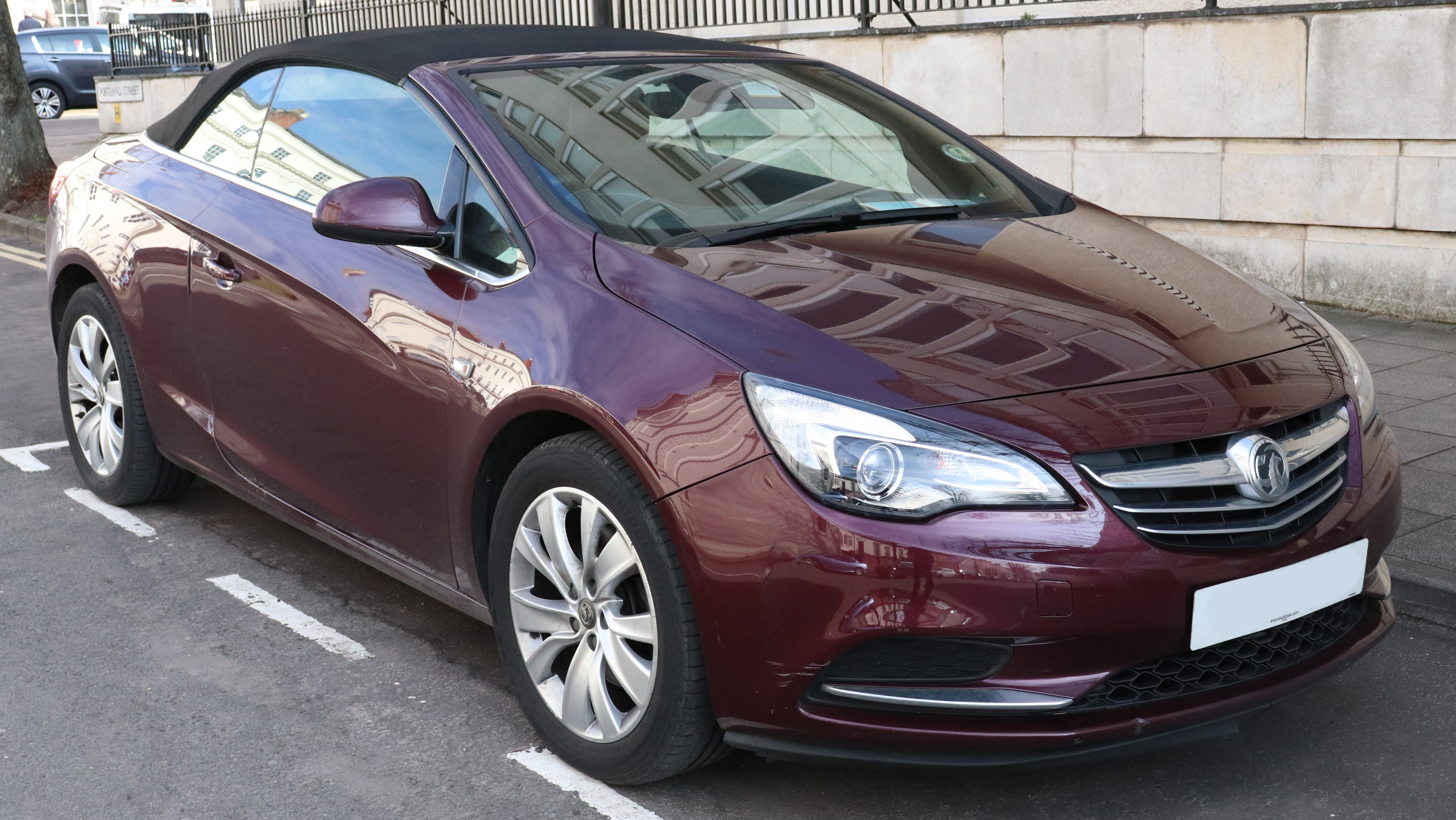 2014 Vauxhall Cascada SE CDTi 2.0 Taken in Leamington Spa